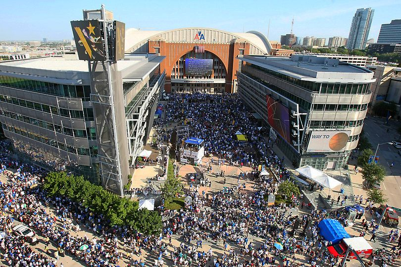 The American Airlines Center, located in Victory Park in Downtown Dallas, with tens of thousands of fans celebrating the Dallas Mavericks NBA 2011 Title Championship on 06-16-11